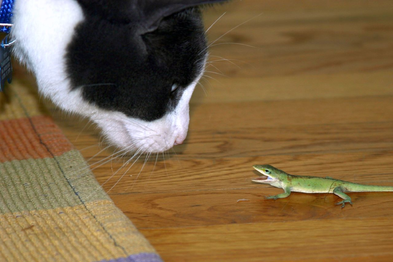 The story of boy cat meets lizard. Boy cat tries to kill lizard. Lizard is a Carolina anole. (Anolis carolinensis)